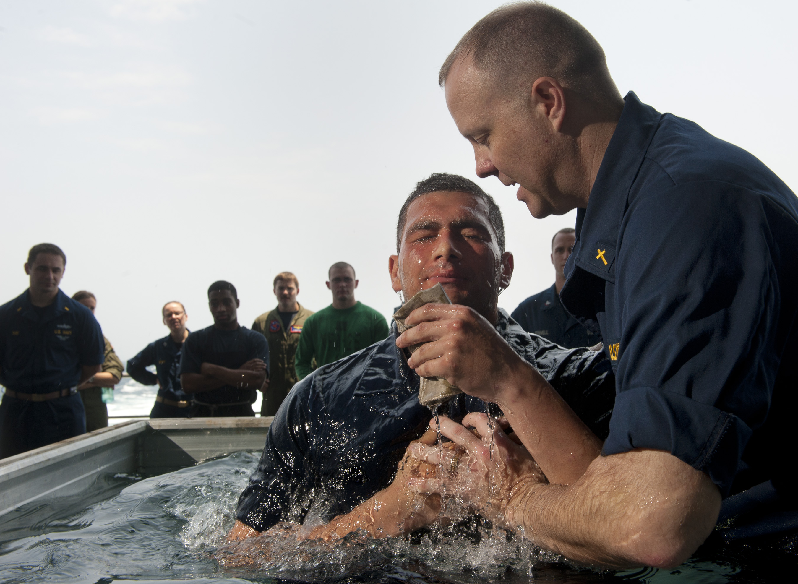 ARABIAN SEA (May 8, 2011) Lt. Jeffrey Ross, a chaplain aboard the Nimitz-class aircraft carrier USS Carl Vinson (CVN 70), baptizes Aviation Boatswain's Mate (Fuel) Airman Jovan Michel. Carl Vinson and Carrier Air Wing (CVW) 17 are underway in the U.S. 7th Fleet area of responsibility.